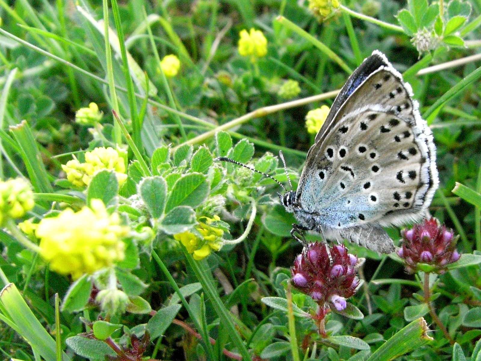 Plenty of these beauties presently at Collard Hill but some have deformed wing-tips. I wonder whether new breeding stock will soon be needed.